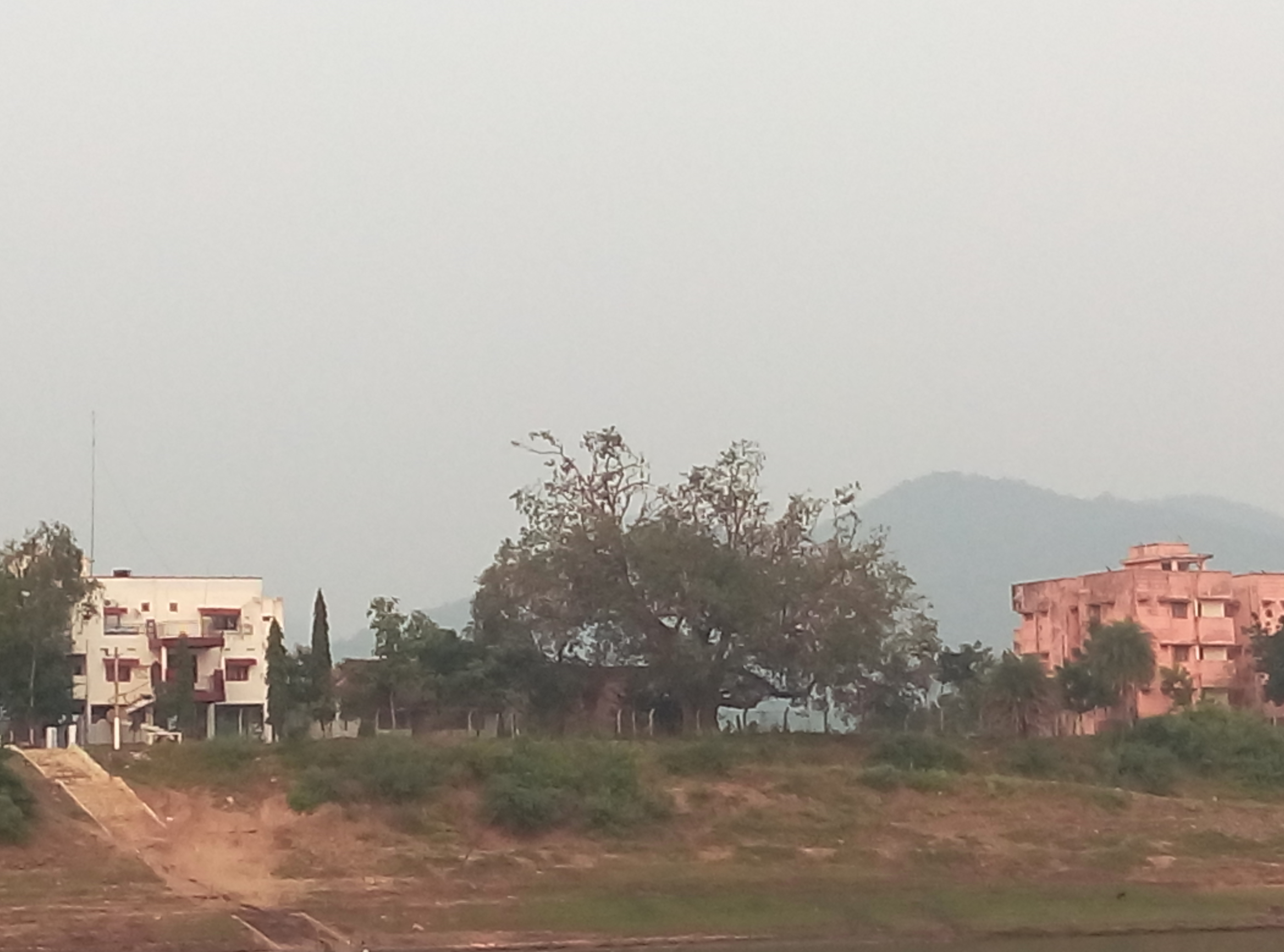 Historical Police station in Devipatnam, East Godavari district, on which Famous revolutionary Alluri Ramaraju attacked in 1920s during legendary Manyam revolt.